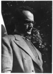 [Illus. for article in LCQJ, Jan. 1973, "Malraux's Sierra de Teruel": Varian Fry, who helped get film to U.S.]